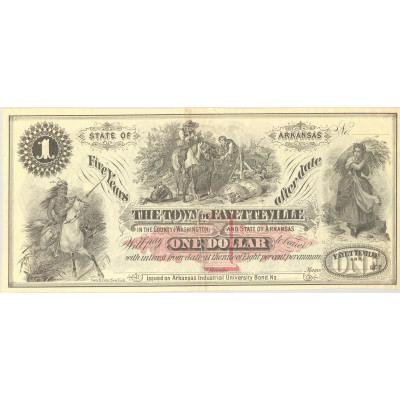 Arkansas scrip. One dollar note from Fayetteville, Arkansas. No serial number. Printer was Geo. H. Cole, New York. No signatures. This was good for five years after its date. Image of Native American in bottom left corner. Image of a woman on the right hand side. Image of a man on a horse next to a boy on a fence in the upper center of the note. Rothert number: 193-3. Rarity level: 6.